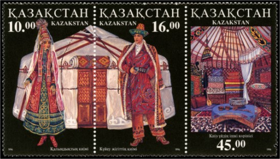 taken from - official web-site of the kazakhstan post service